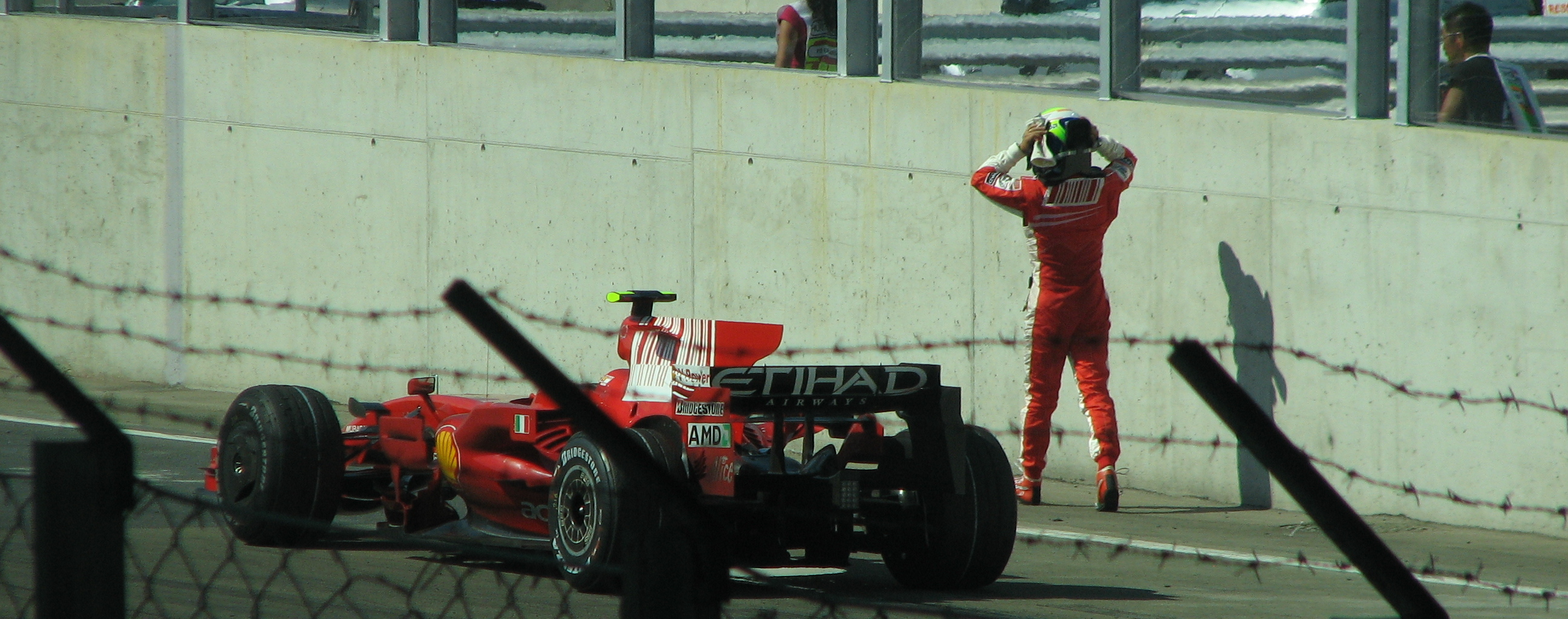 Felipe Massa walks from his broken down car. - Hungaroring 2008 (GP Hungary).